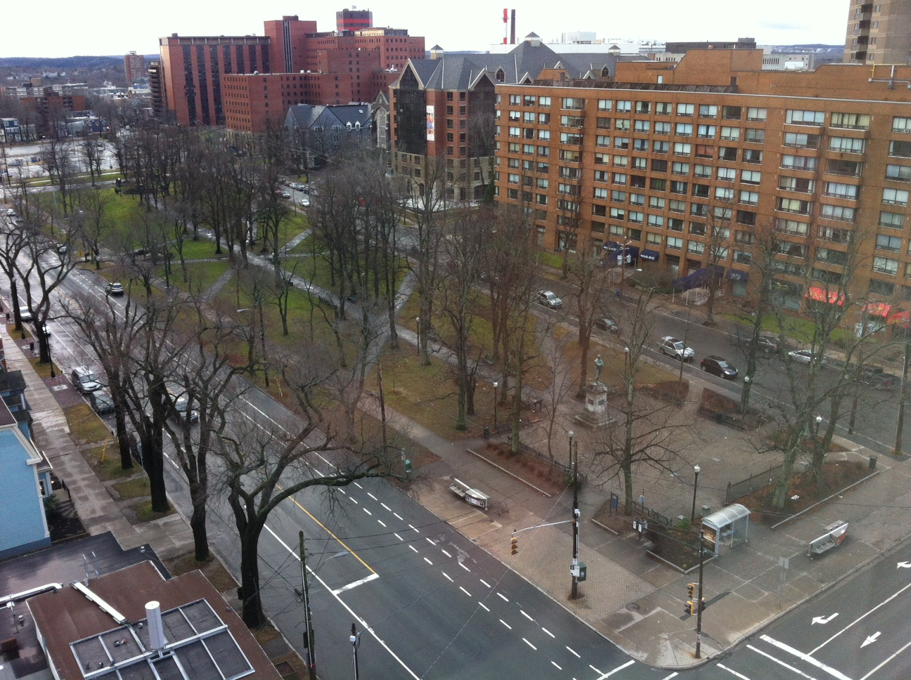 Victoria Park, Halifax, Nova Scotia, showing South Park Street on the left, Spring Garden on the right, and Martello Street on the upper right